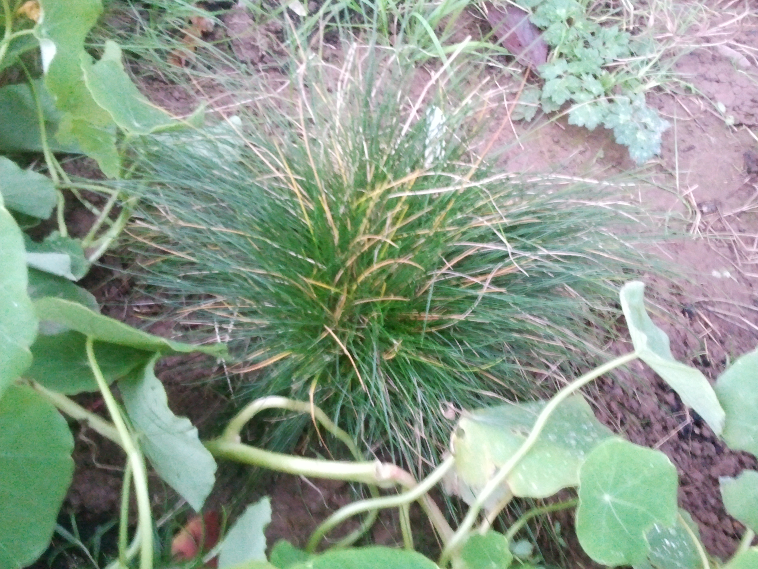 Sheep fescue grass, showing its tufted nature